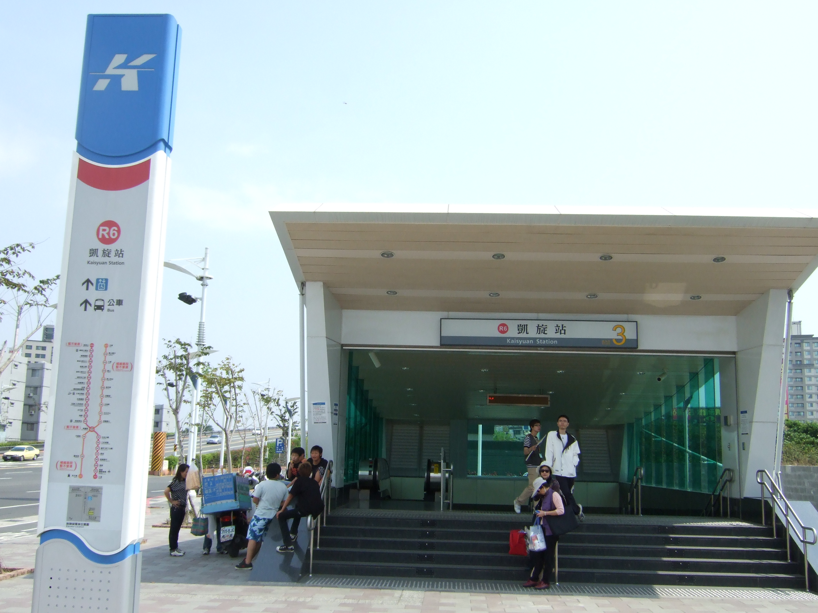 Kaohsiung MRT Kaisyuan Station Exit 3.